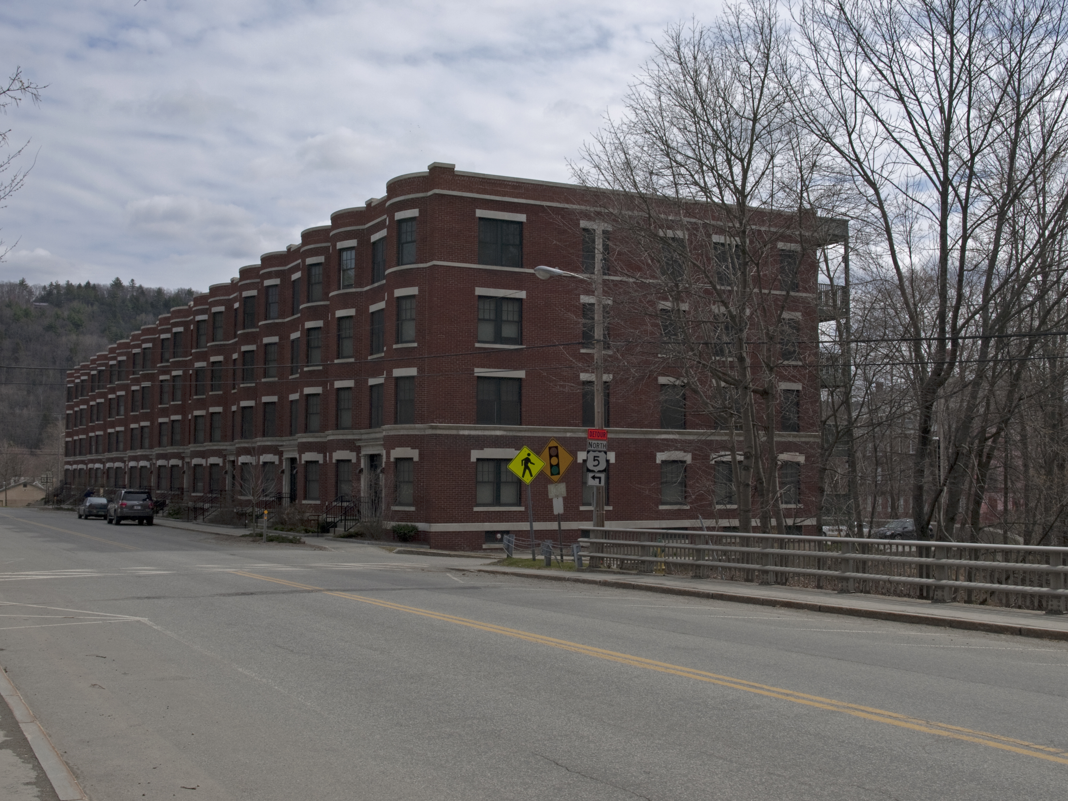 NAMCO Block, Windsor, Vermont/ Taken from US5 from the Ascutney side; in the background the eastearn bank of the Connecticut River, NH.